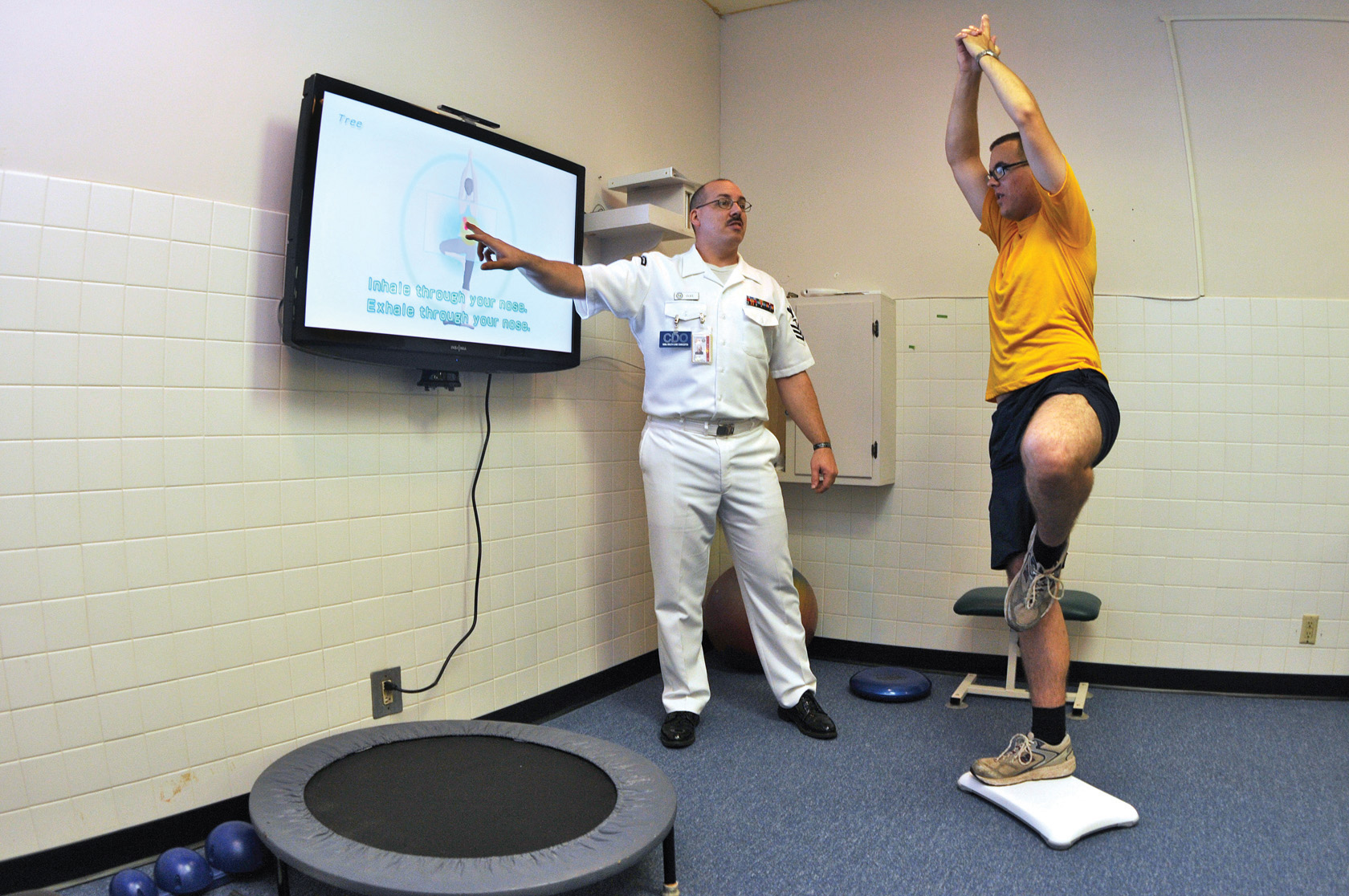 CHARLESTON, S.C. (July 2, 2009) Hospital Corpsman 1st Class Guy Duke, left, and Electronics Technician 3rd Class Joshua Benedict demonstrate how the Physical therapy Department at Naval Health Clinic, Charleston use the Wii Fitís yoga program as a therapy tool for patients. (U.S. Navy photo by Machinist's Mate 3rd Class Juan Pinalez/Released)